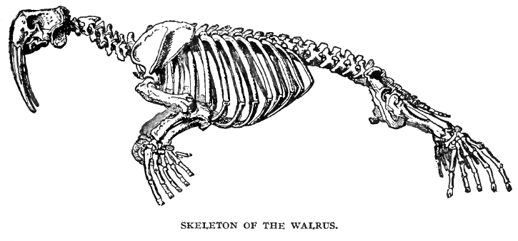 Skeleton of Walrus